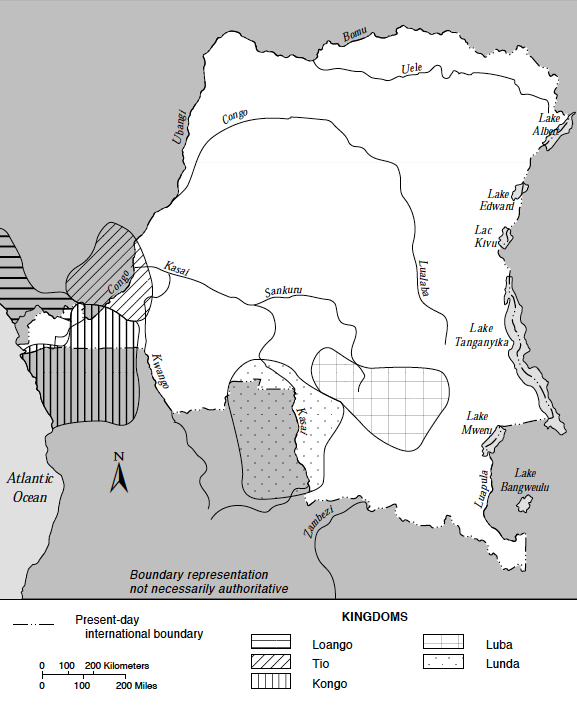 States in Western Congo